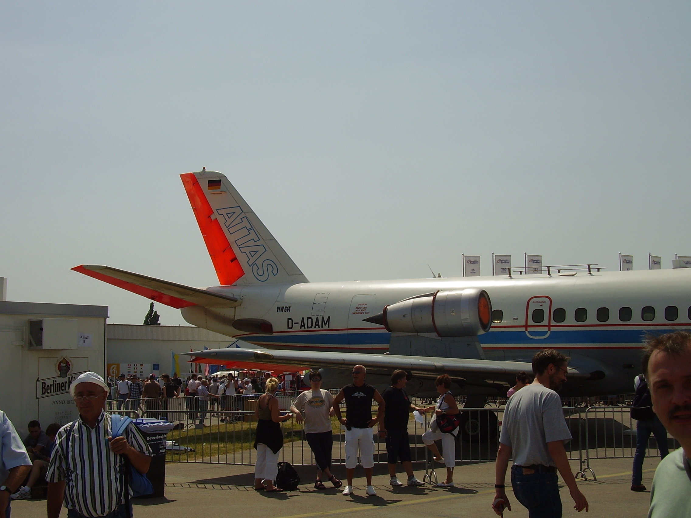 ILA 2008, registration D-ADAM (tail number)